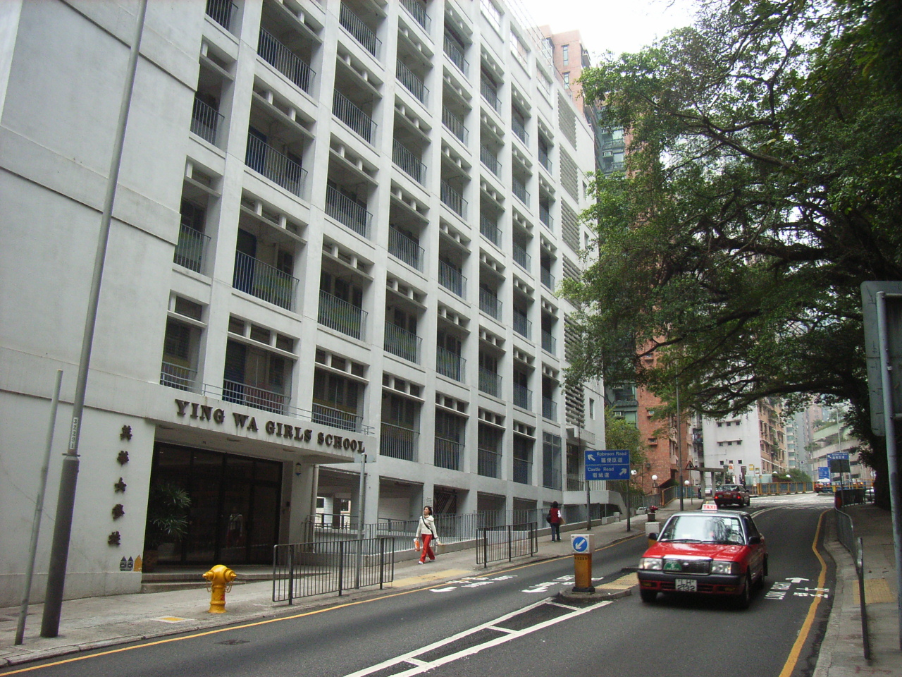 英華女學校 (Ying Wa Girls' School)，zh:1900年創立，是zh:中華基督教會香港教會開辦的女子zh:中學，由zh:香港政府津貼，校址: 羅便臣道78號, 是香港名校之一。 Photographer and author is ParkerStarS.